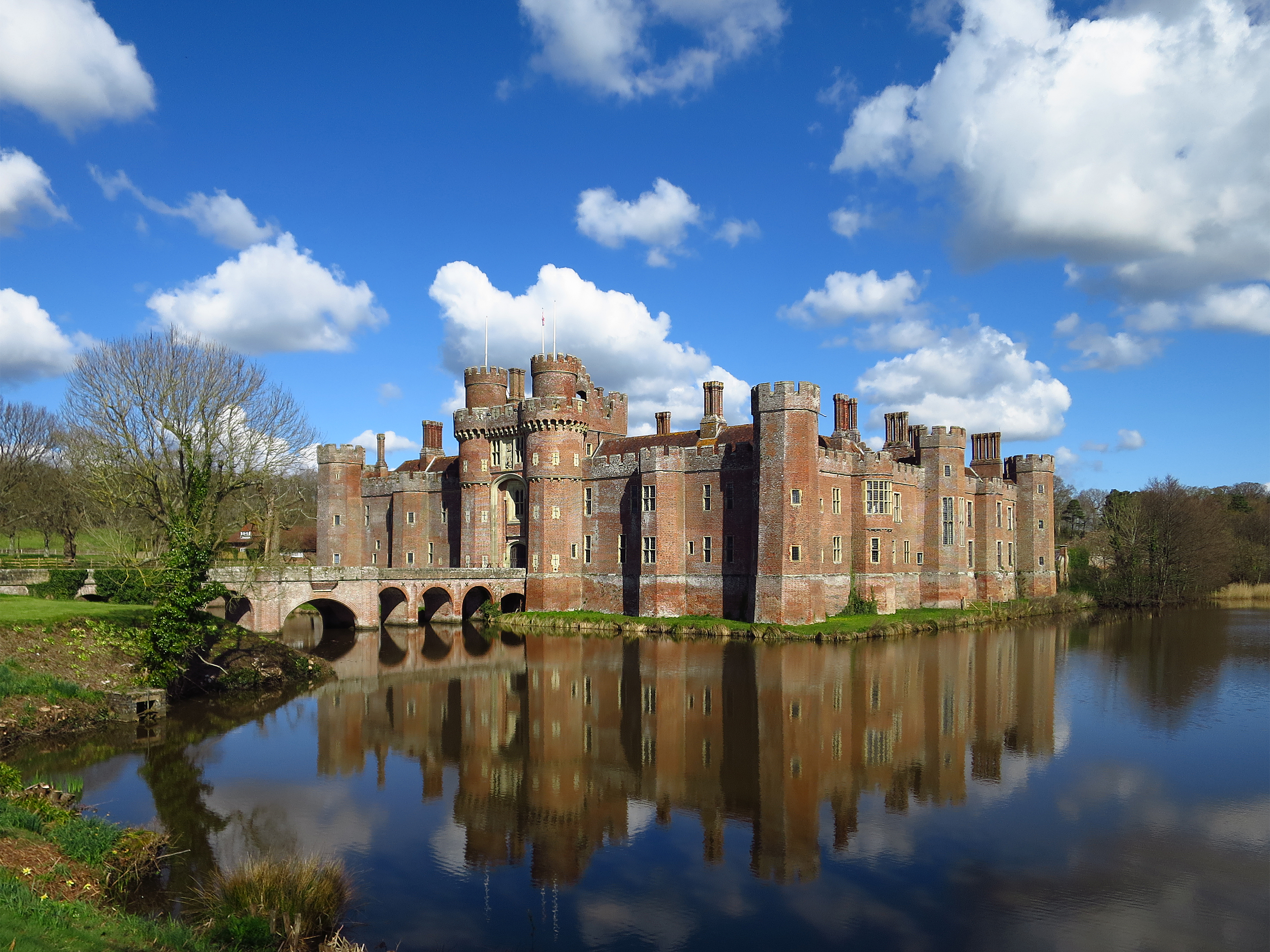 Herstmonceux Castle, East Sussex, England. View from the south-east. Wikidata has entry Q2652207 with data related to this item.